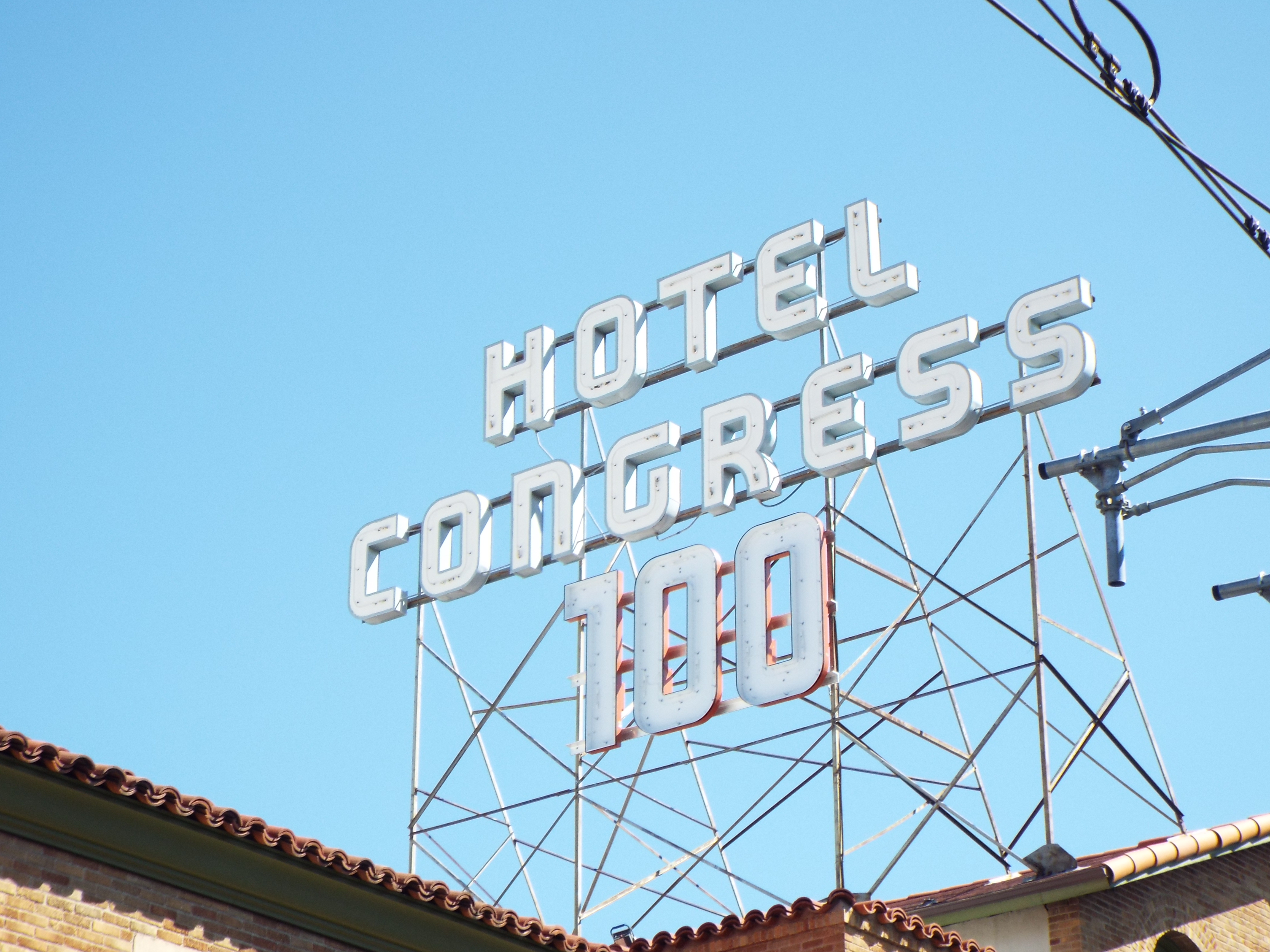 Historic Hotel Congress built in 1919 and located in Tucson, Arizona